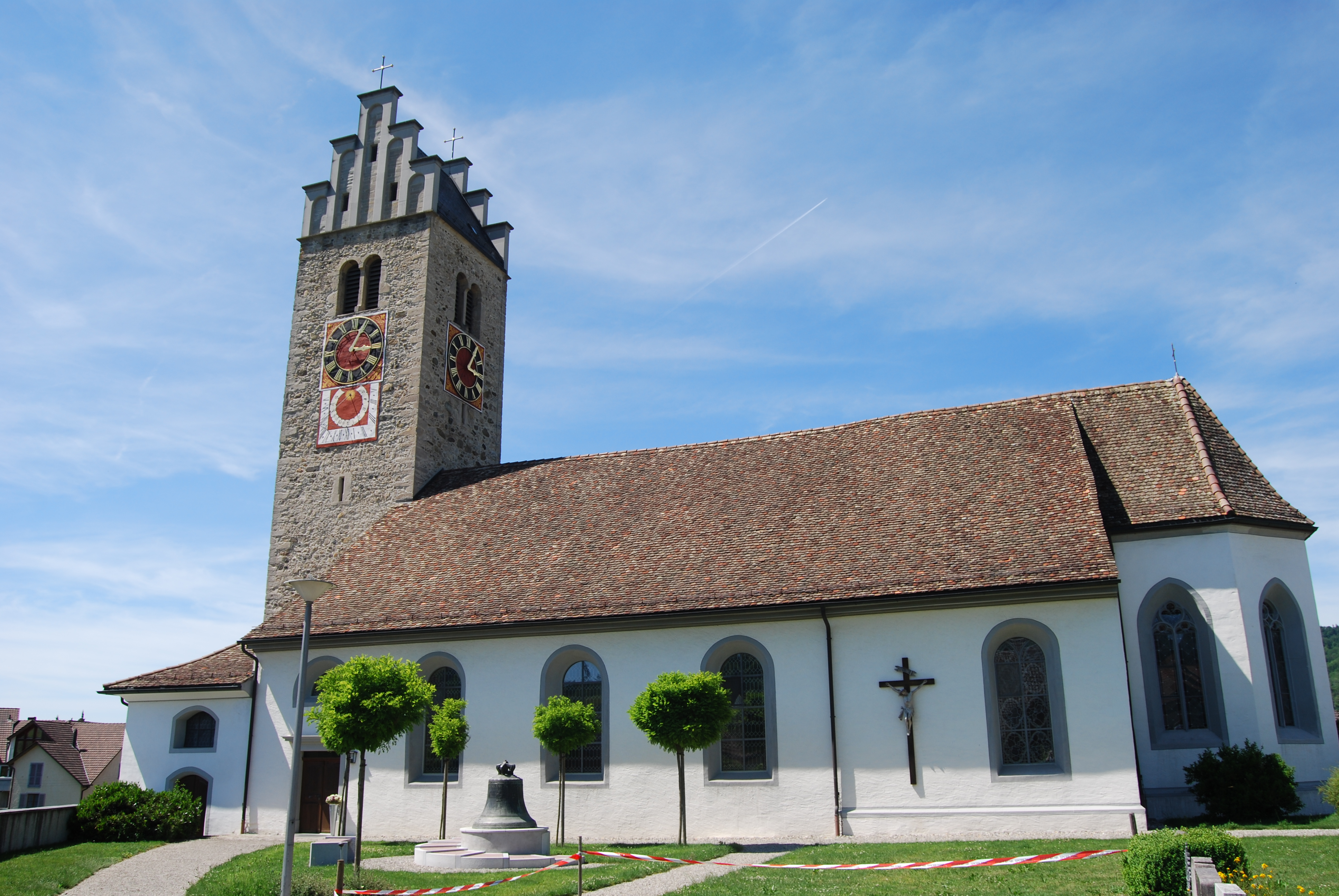 Catholic church of Lommis, canton of Thurgovia, Switzerland